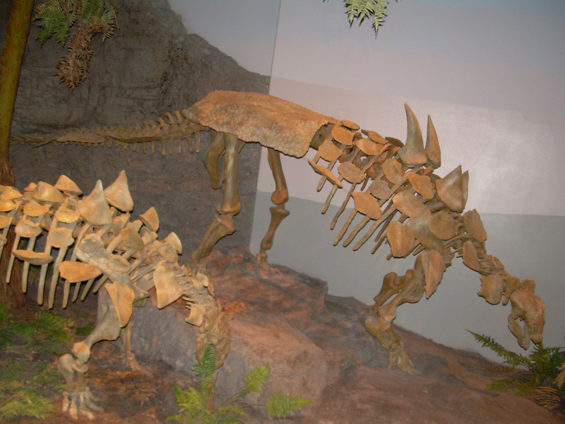 Photograph of fossil casts of Gastonia burgei skeletons taken at the North American Museum of Ancient Life.